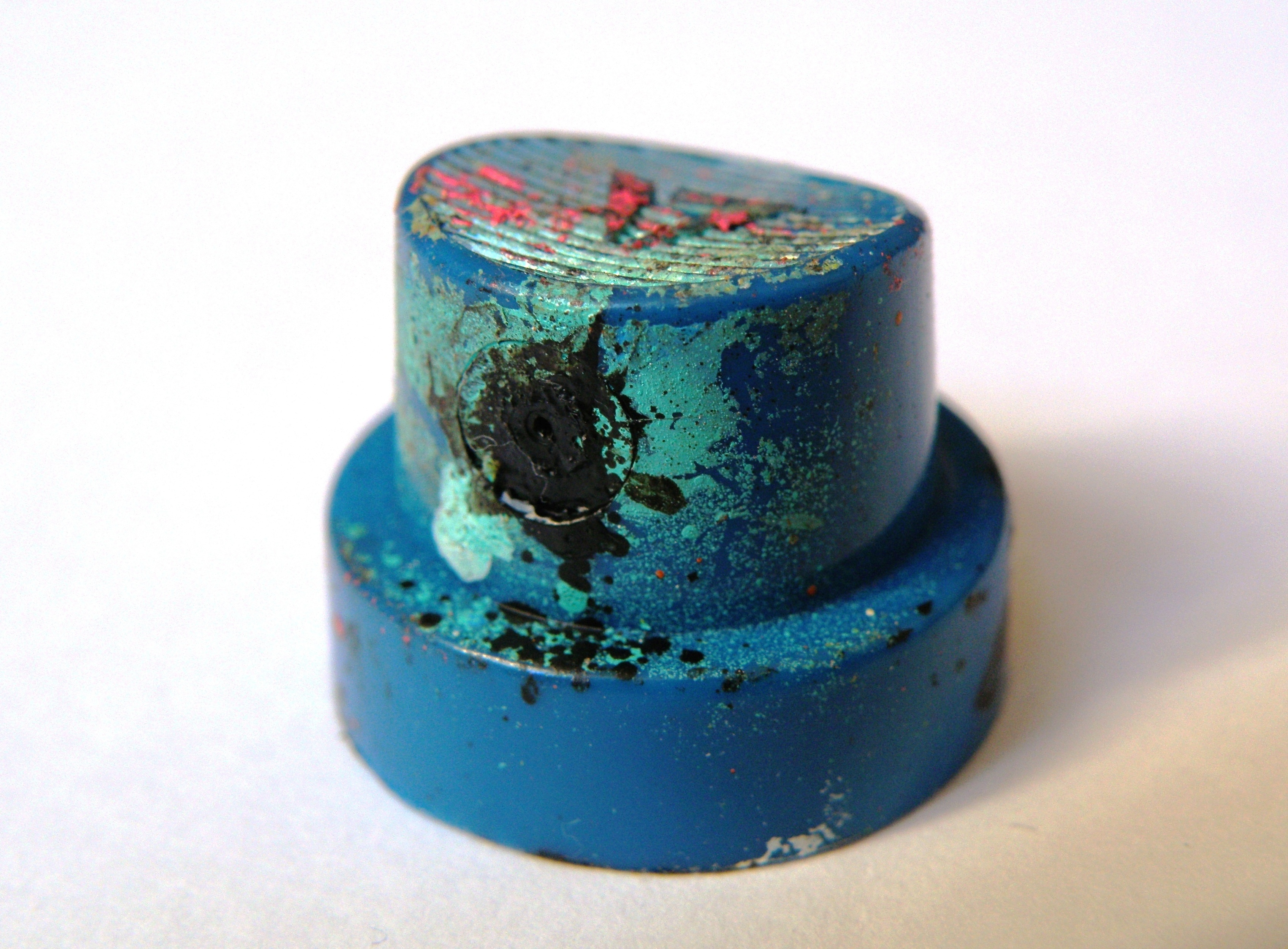 Spray paint cap, used several times with multiple paints for graffiti-writing.